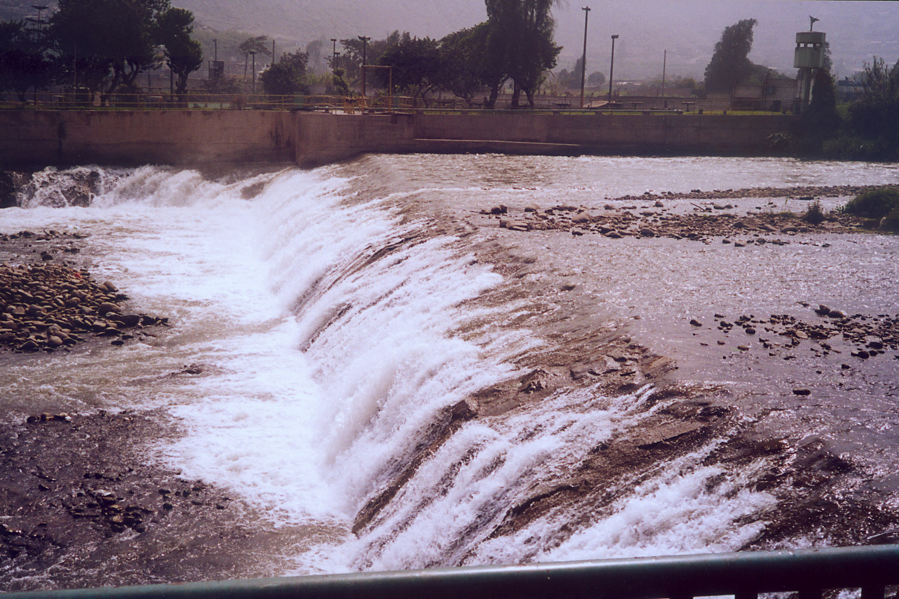 River Rimac, Peru. Result of restoration work in the river basin; the forming of "steps" in the river, which give open water areas. River Rimac between Vitarte and Chaclacayo, at the new part of the Panamerican Central Highway. The photo was taken in 2002 by Håkan Svensson (Xauxa).